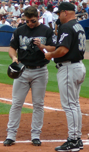 Picture I took of Dan Uggla on 6-5-07 19:52, 7 June 2007 . . Chrisjnelson . . 178×305 (112,115 bytes)